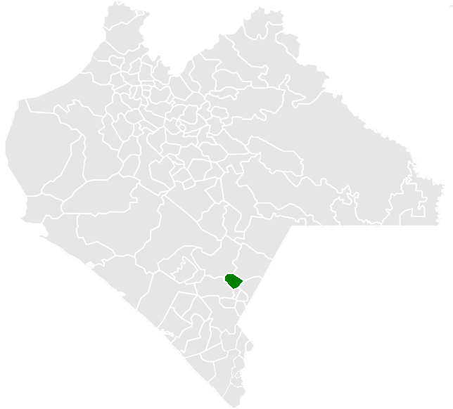 Map of the Municipalty of Bella Vista in the State of Chiapas, México.